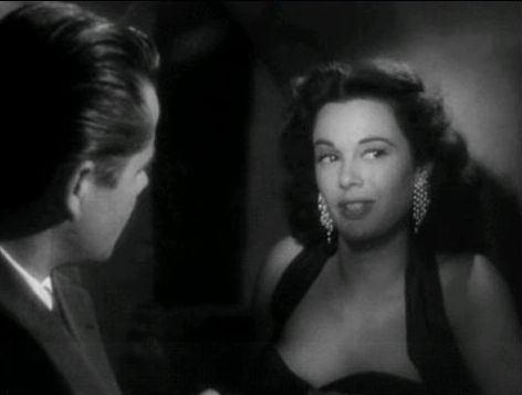 Screenshot of Patricia Medina from the film Plunder of the Sun